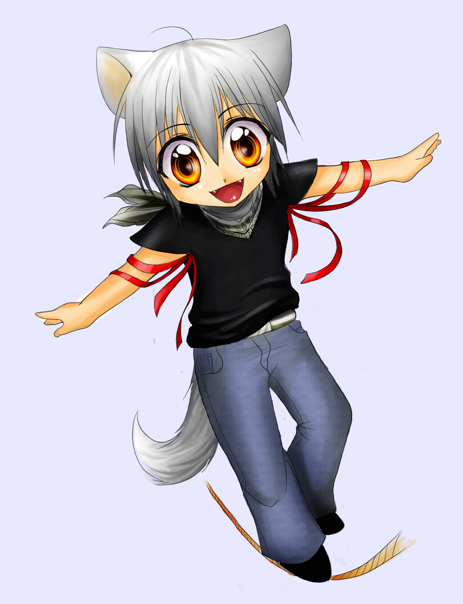 Picture of kemonomimi-art in chibi-style.